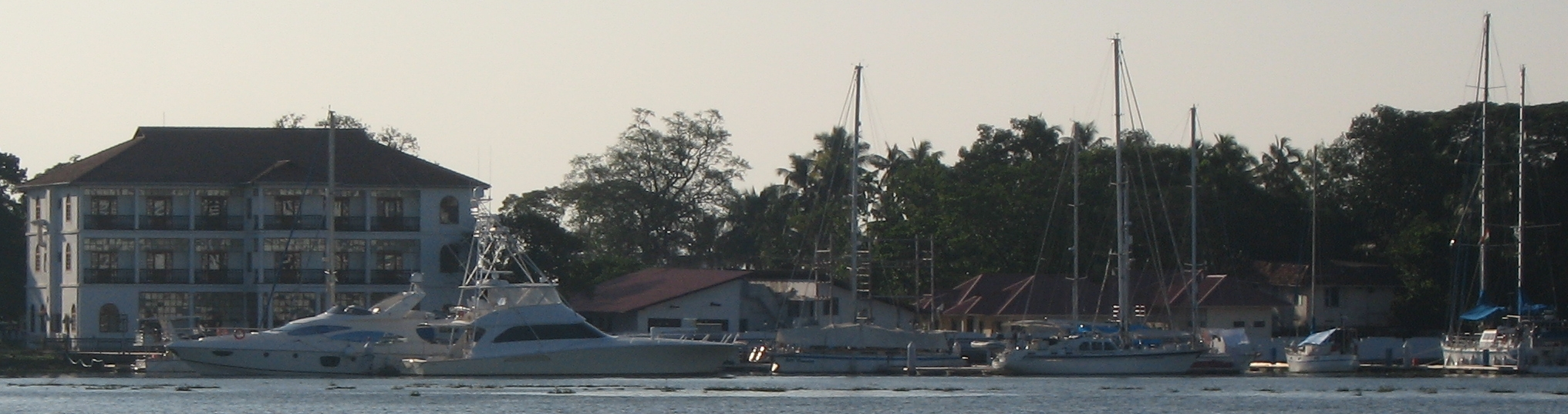 The Kochi Marina has space to berth 50 Yachts.